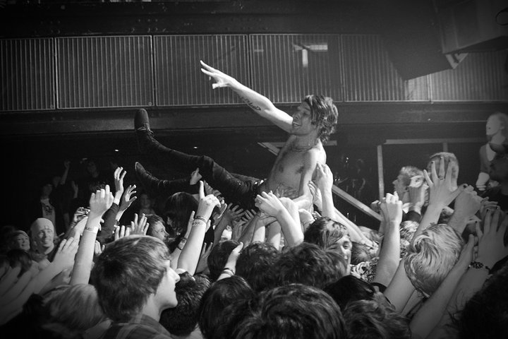 Yashin Vocalist crowdsurfing during concert